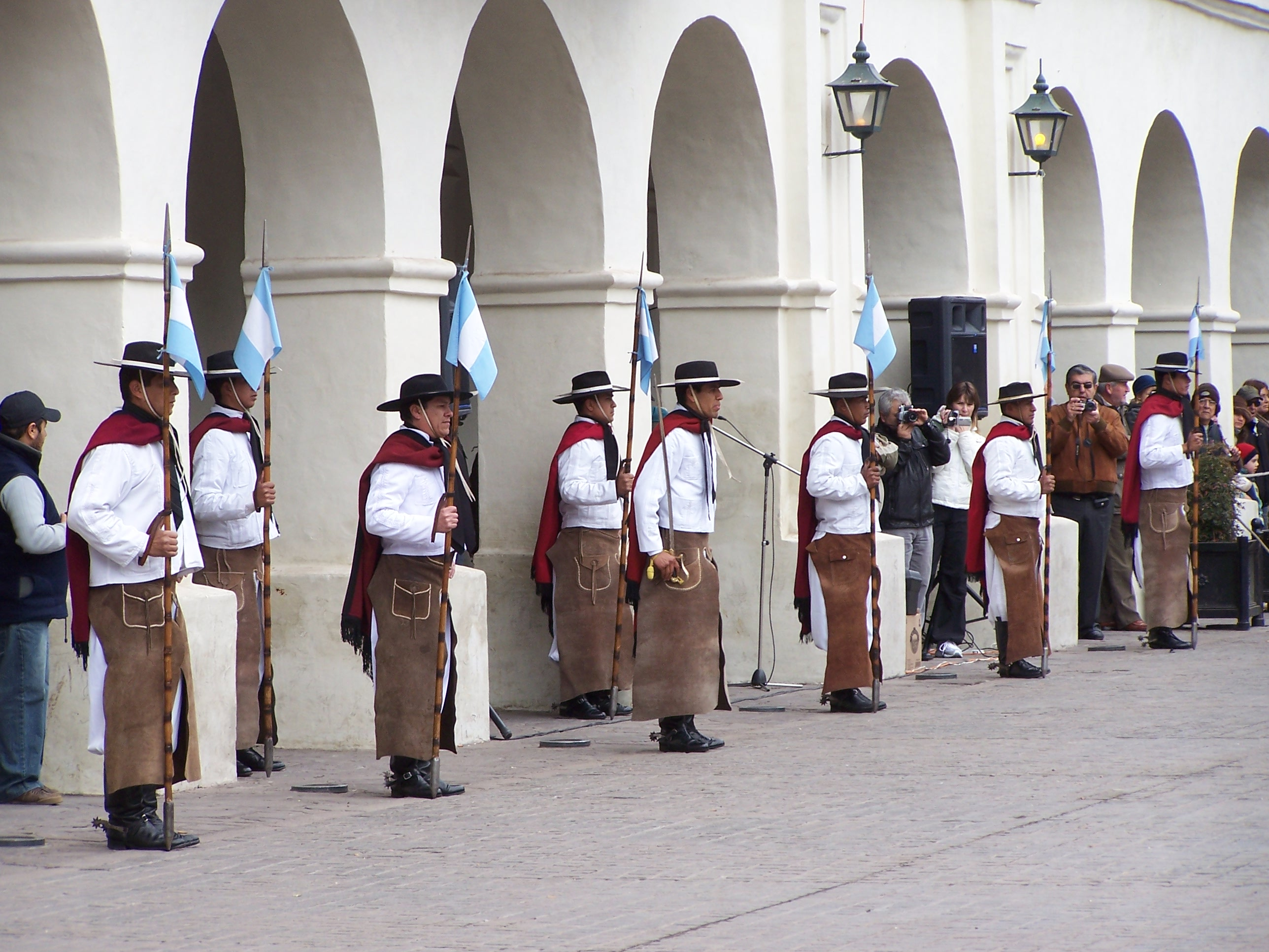 Salta guard